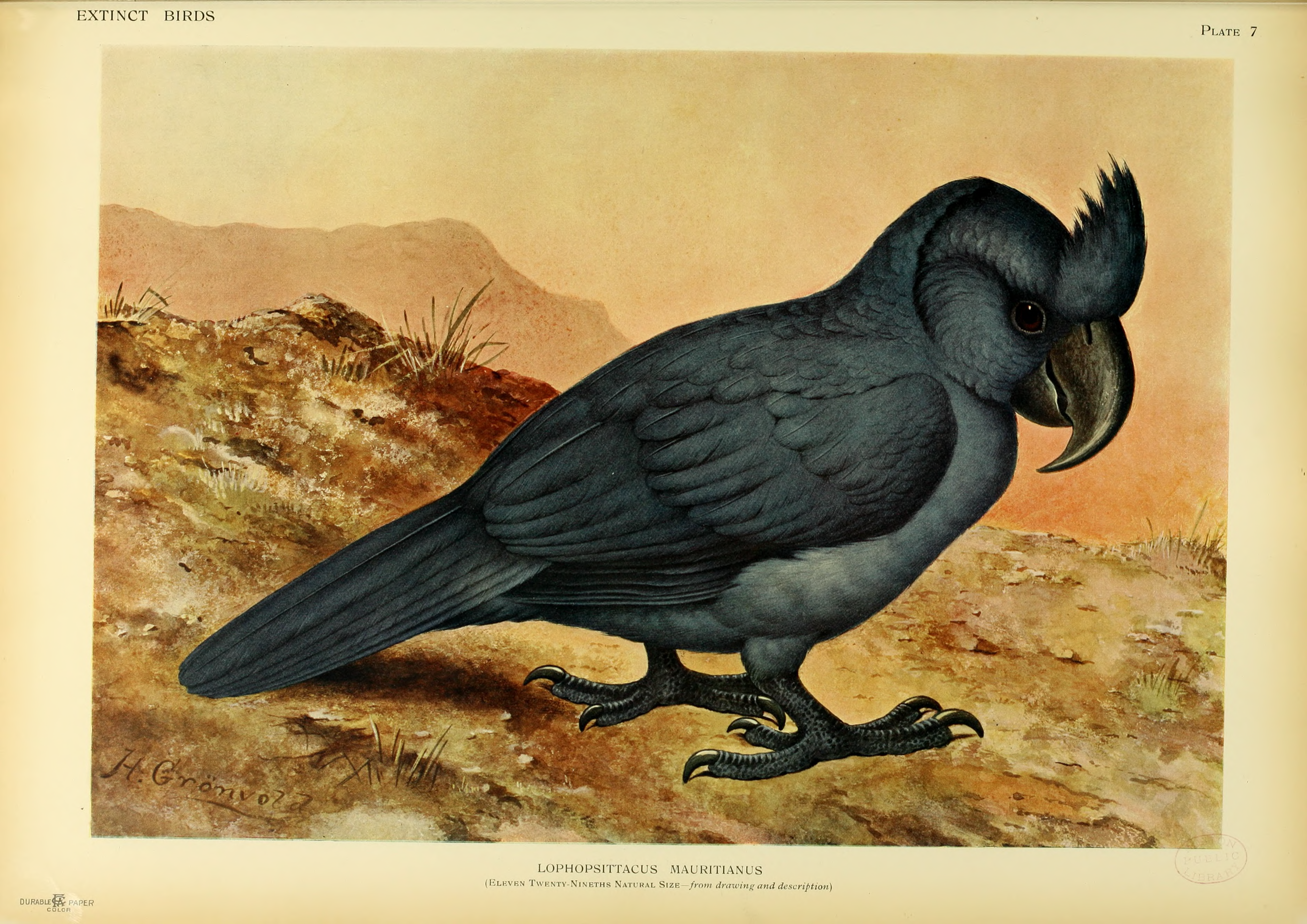 The Broad-billed Parrot was a parrot endemic to the island of Mauritius that became extinct.